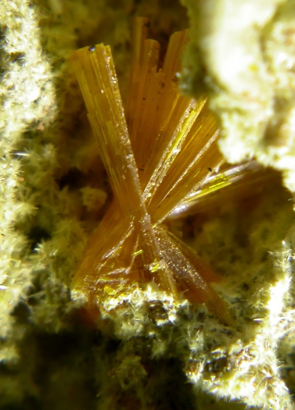 Becquerelite, Uranophane - alpha, Uraninite Locality: Shinkolobwe Mine (Kasolo Mine), Shinkolobwe, Central area, Katanga Copper Crescent, Katanga (Shaba), Democratic Republic of Congo (Zaïre) (Locality at ) Size: 5 x 4.5 x 2.2 cm. Shinkolobwe is the type locality for Becquerelite where it forms lathe-like, yellow to orange, flat-terminated crystals. Here the mineral is associated with Uranophane in very tiny needles. Sometimes the crystals cluster together like shown in the photo, and they reach on this specimen 5 mm. This is a good reference piece for a locality that is closed since more than 50 years.